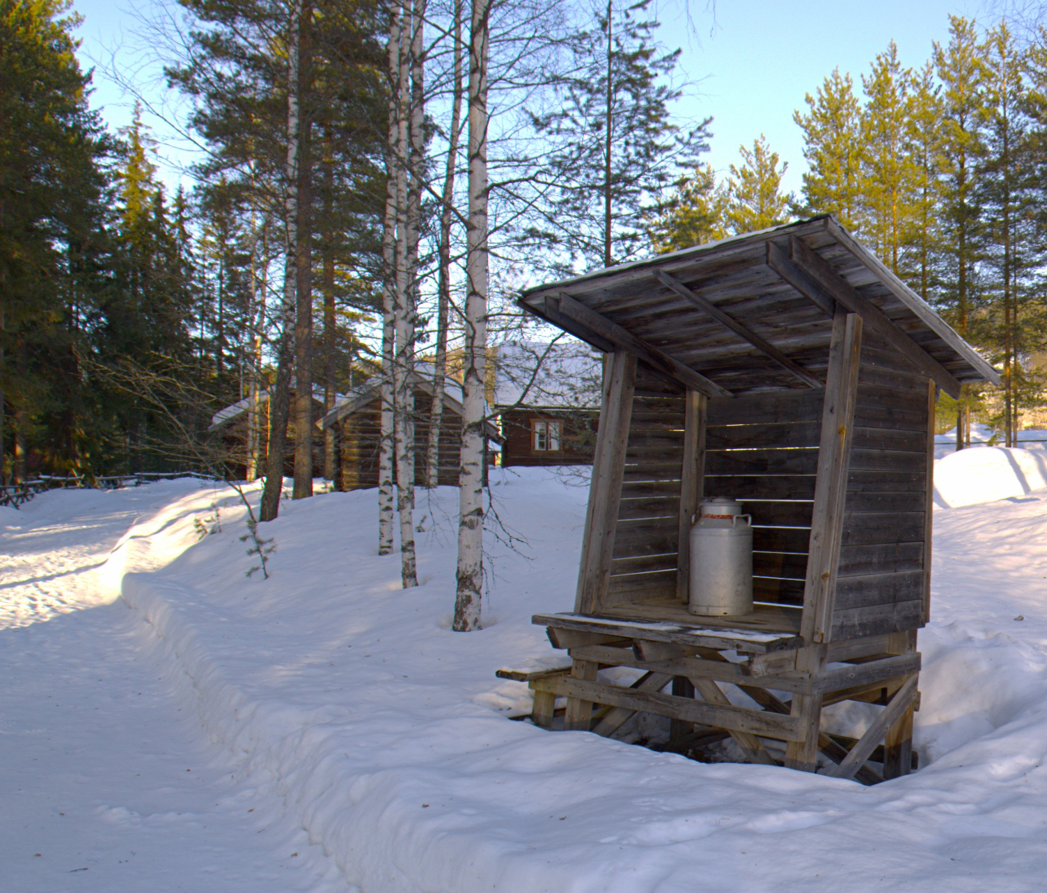 Milk stand - cans of milk are placed inside, ready to be picked up by milk delivery trucks